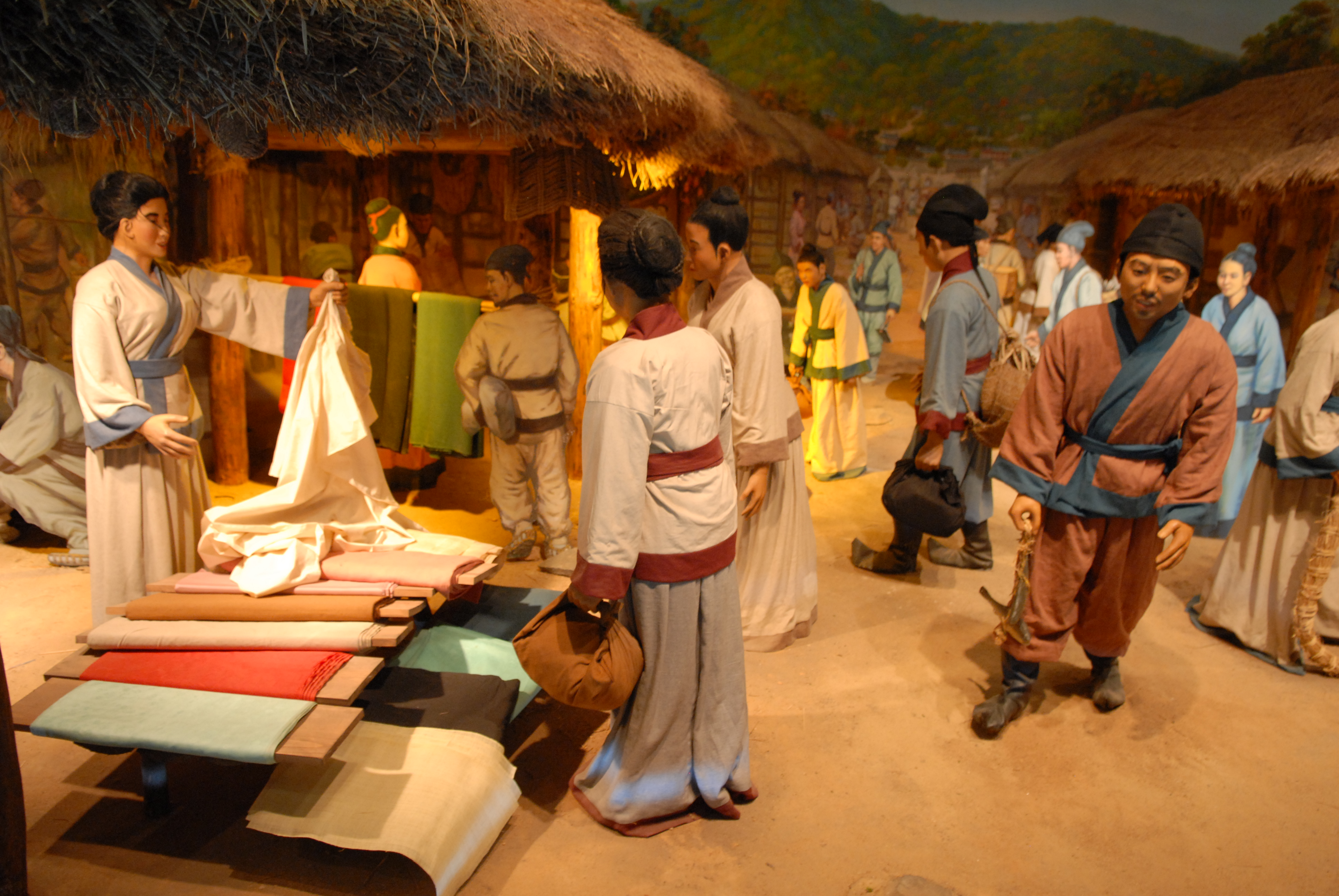 Learn more about the U.S. Army in Korea Description : market in Backje dynasty. [#//buyeo.museum.go.kr/lang/eng.do?method=main Learn more about the Buyeo National Museum] U.S. Army photo by Hong, Seung Hui.